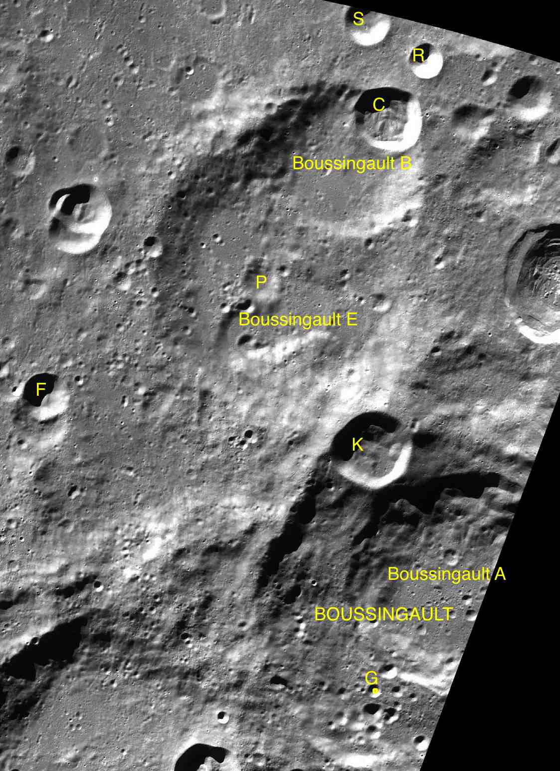 Part of the LAC-138 chart used for the presentation